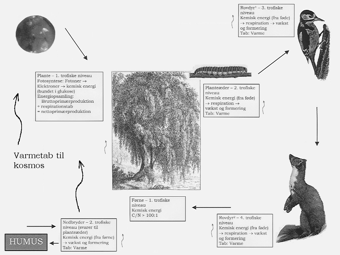 Energy flow in the food chain